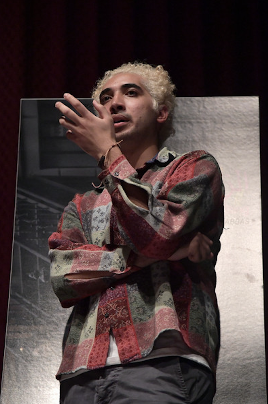 Sam Abbas